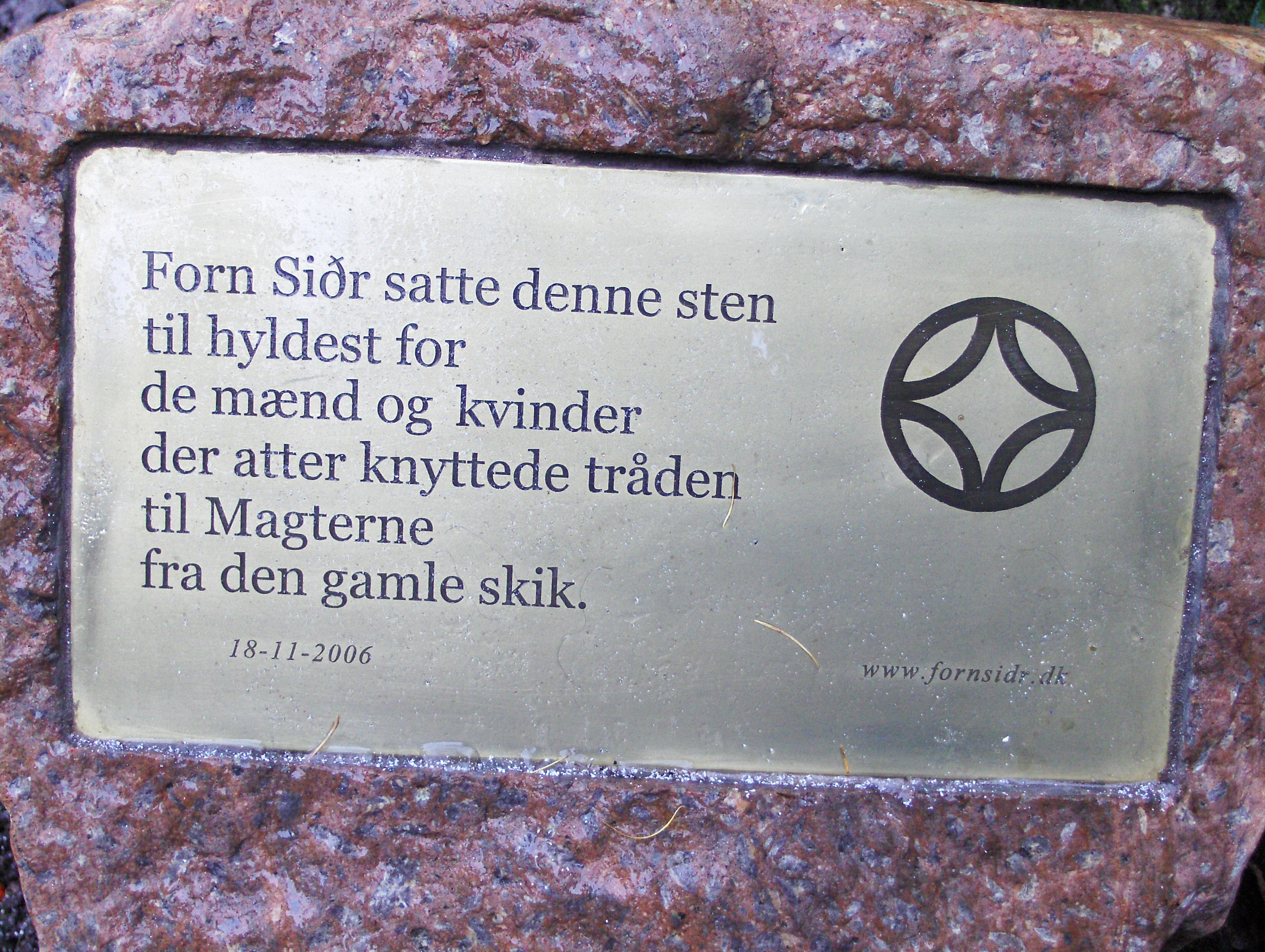 Transcription of the rune inscription of the runestone from the danish pagan society Forn Sidr, the official stone setting was in november 2006 near Jelling.